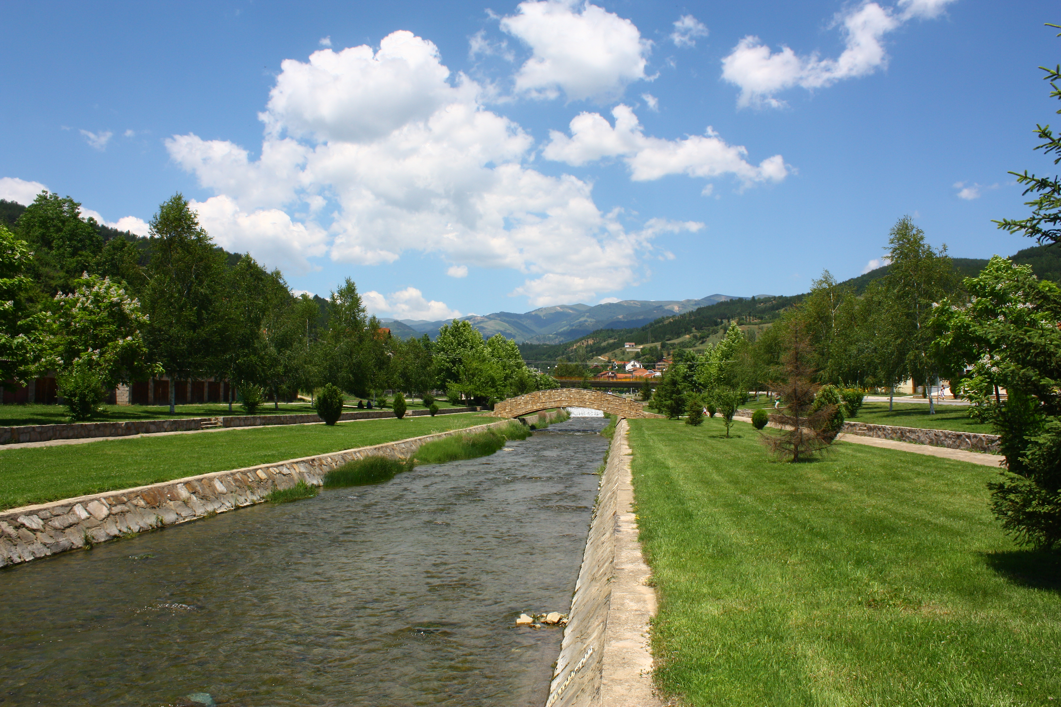 Kamenica River at Makedonska Kamenica, Macedonia